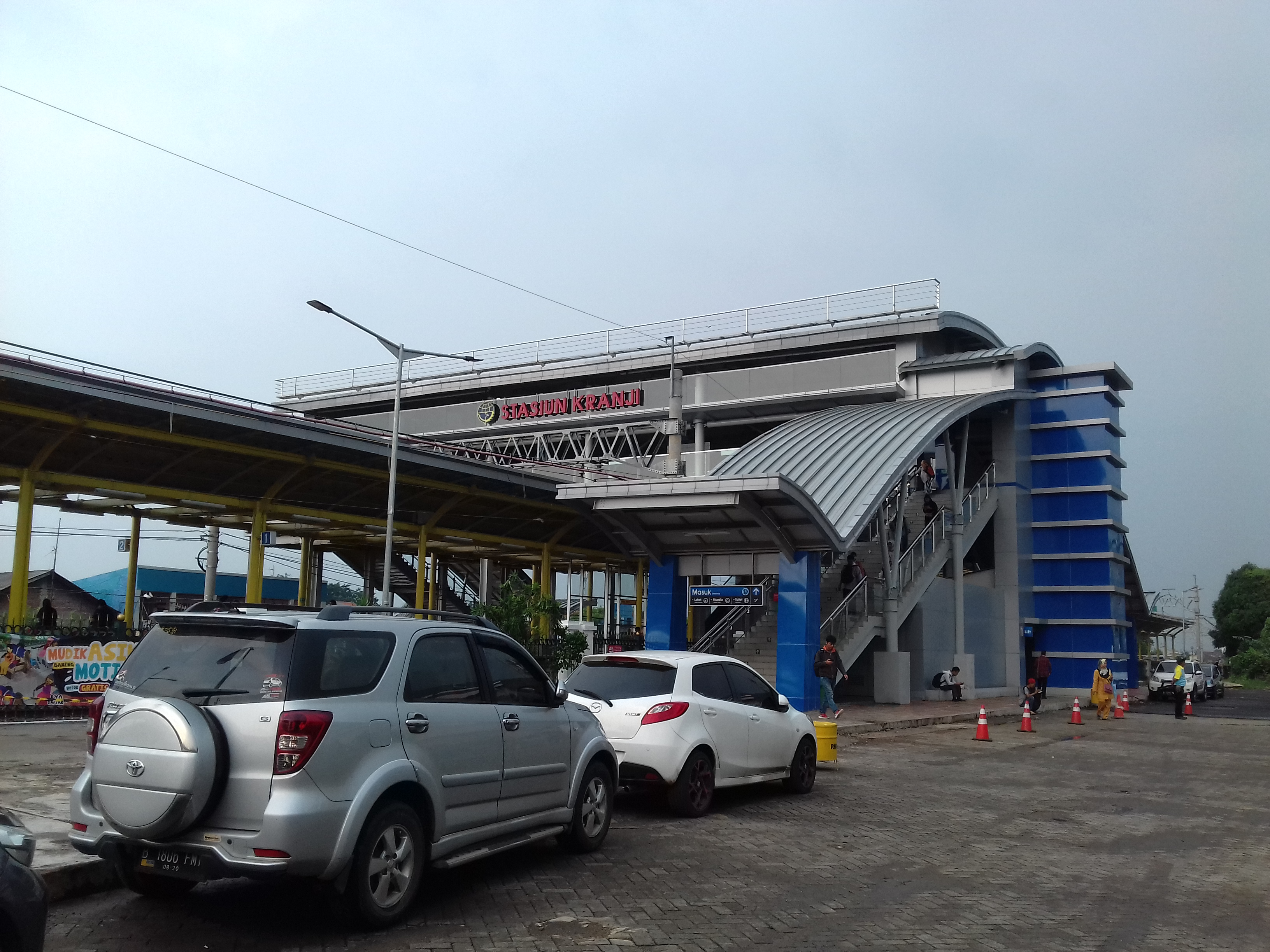 An upgraded builded of Kranji Station in Bekasi City, West Java, Indonesia, in 2019Bahasa Indonesia: Bangunan baru Stasiun Kranji di Kota Bekasi, Jawa Barat, Indonesia, tahun 2019